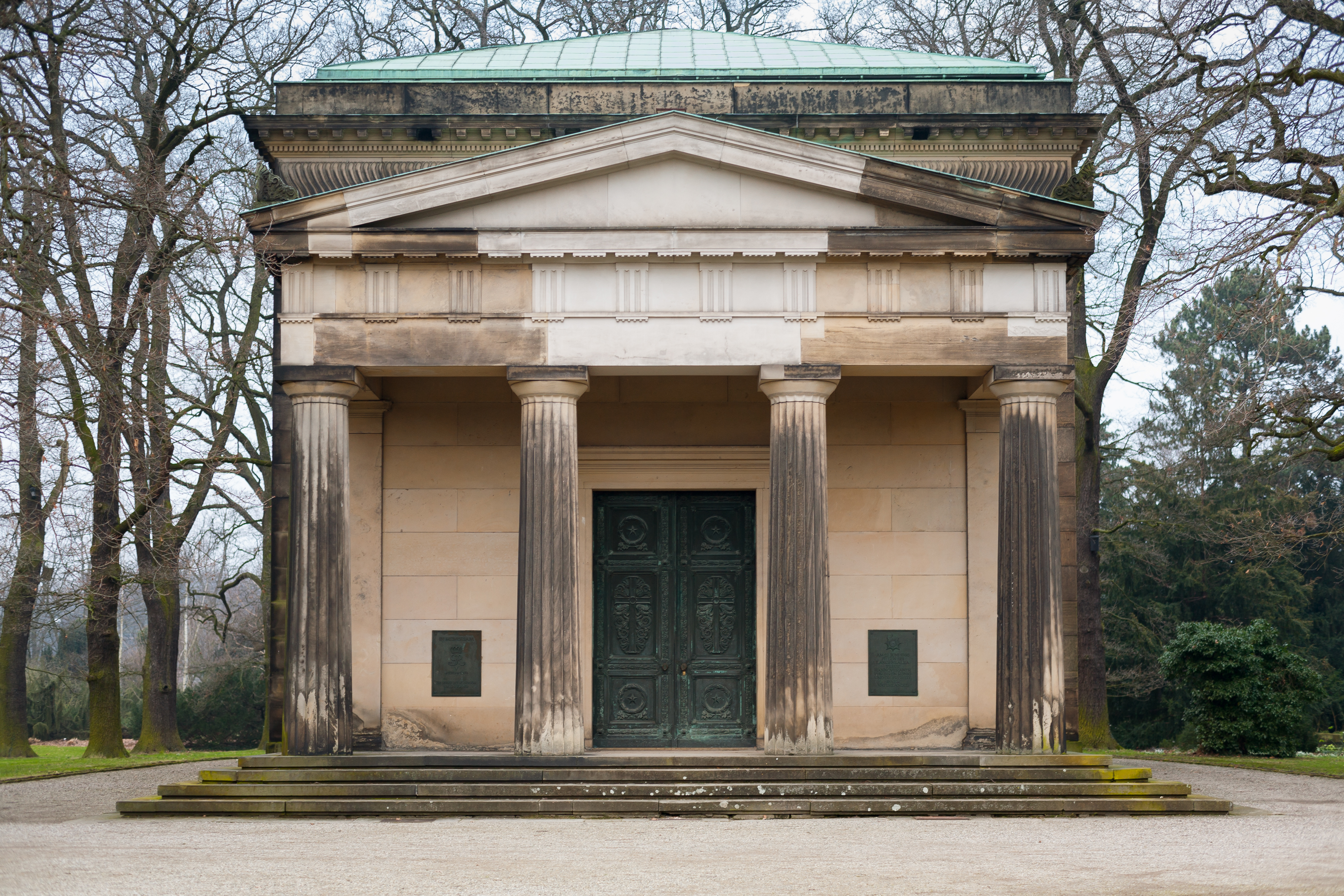 Mausoleum of the Welfs, located at the Berggarten garden in Herrenhausen district of Hannover, Germany.